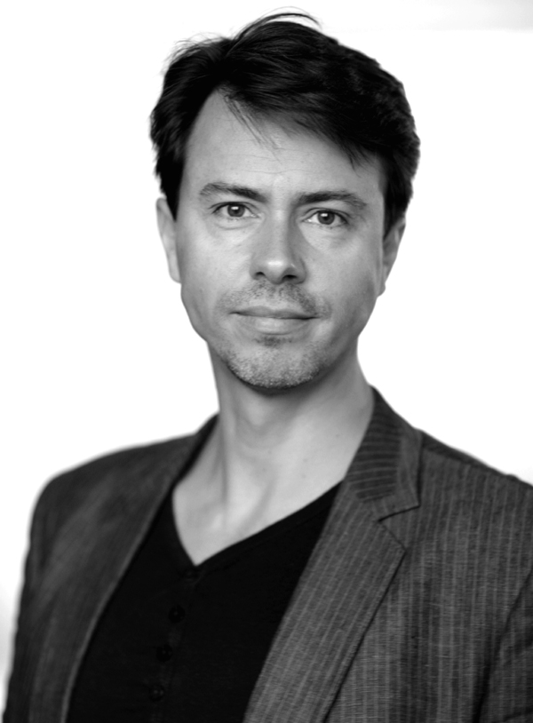 Morten Brask, forfatter